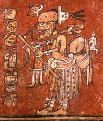 God A, Ah Puch, Kimi